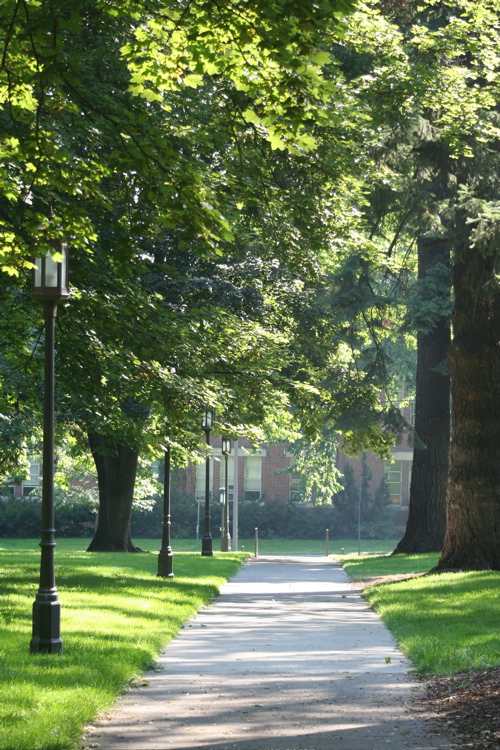 "Hello Walk" on the University of Idaho campus.